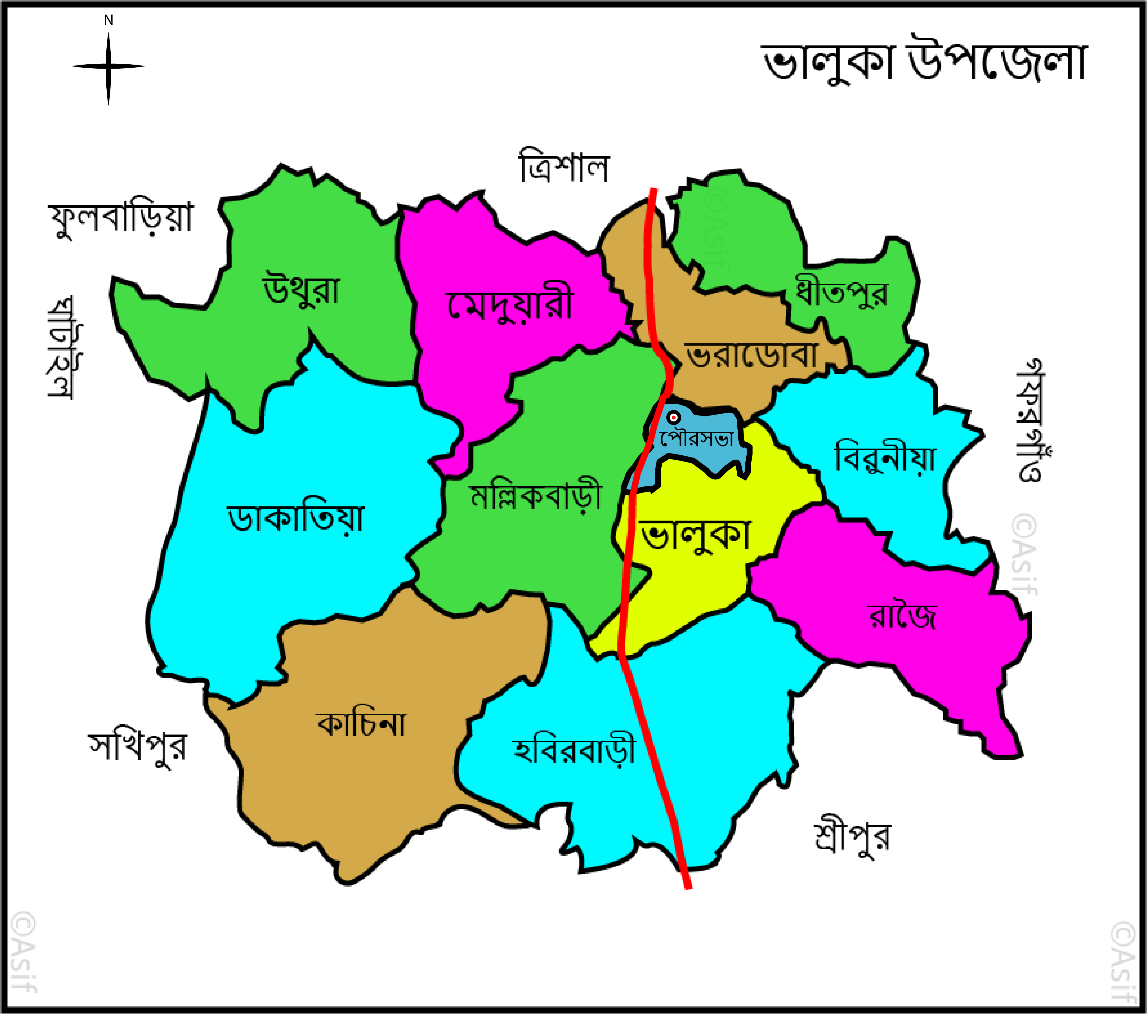 bhaluka upzila map